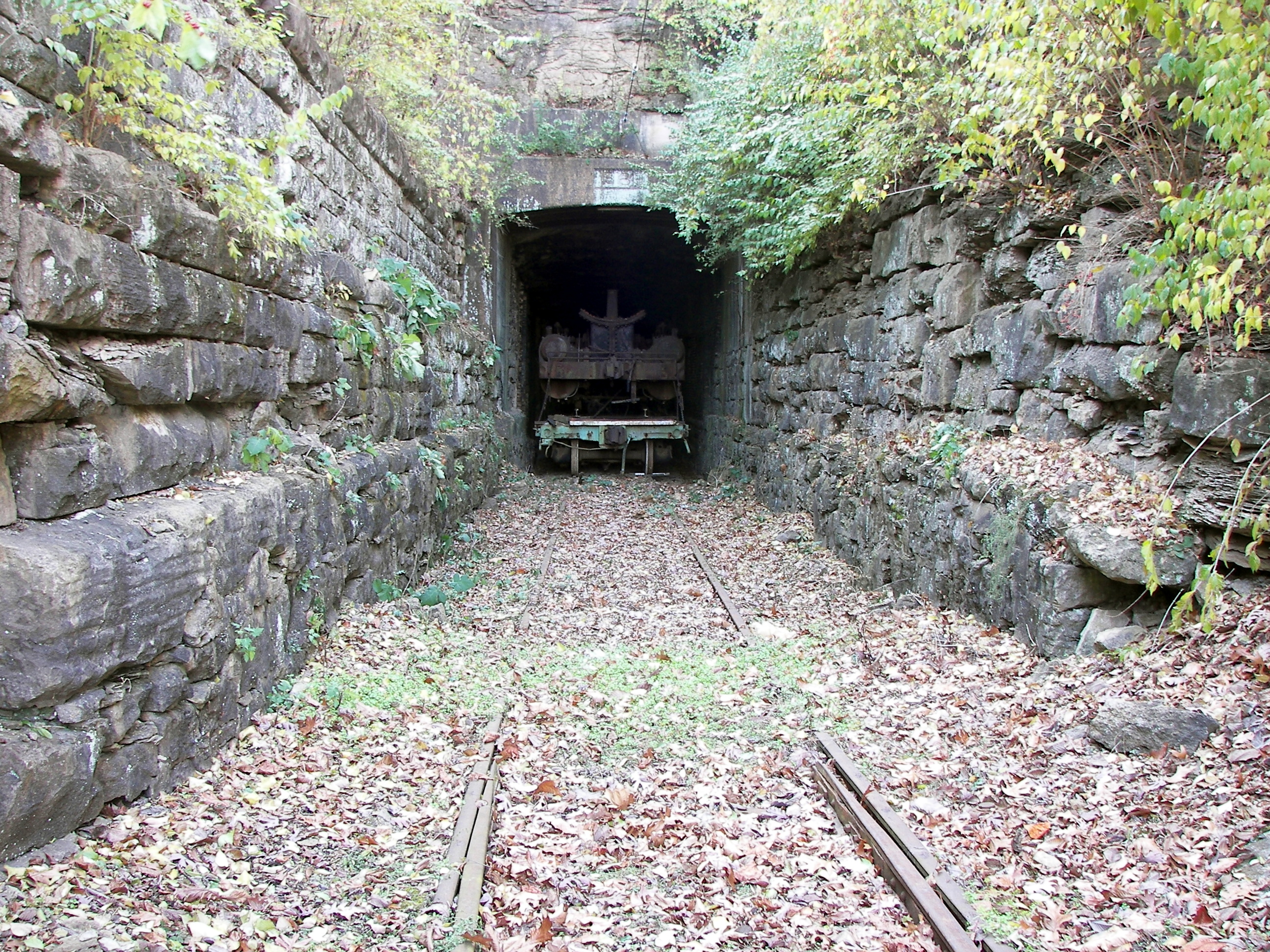 One of the Barretts tunnels, the first railroad tunnels west of the Mississippi in the U.S., located on the grounds of the Museum of Transportation, some old railroad equipment of which is stored in the tunnel.